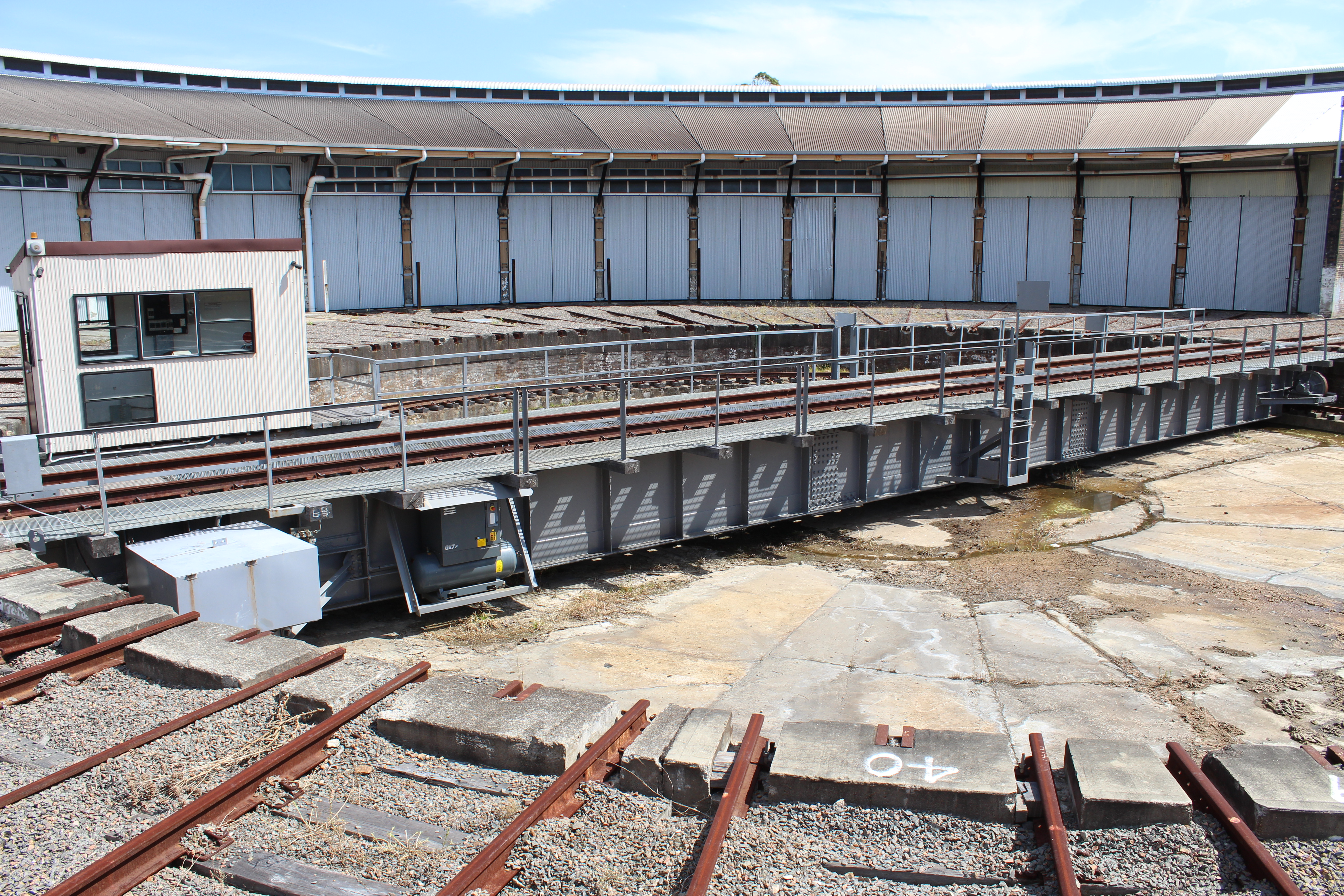 The electrically powered 105 foot diameter turntable serving No.2 Shed at Broadmedow Loco Depot